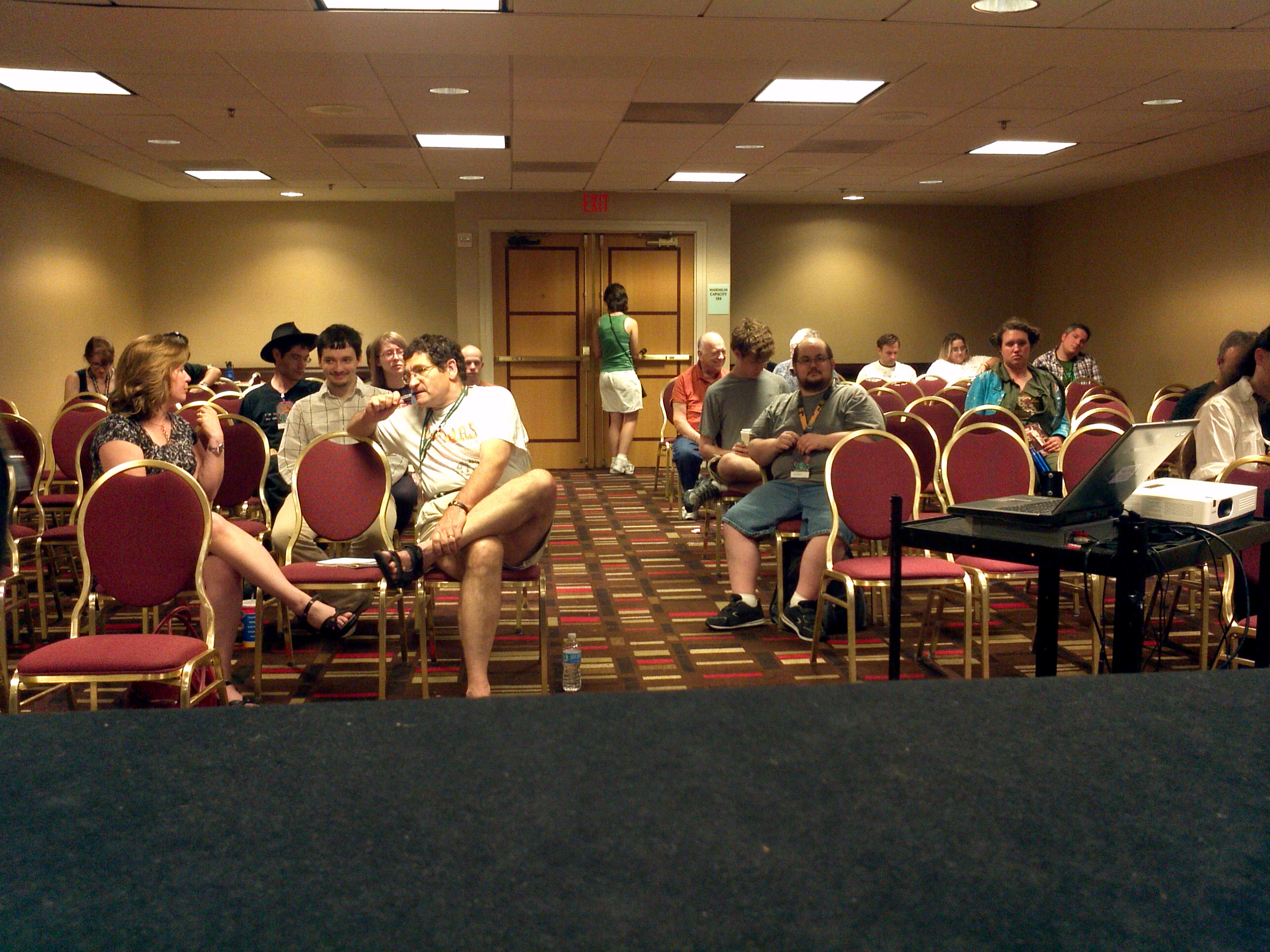 Dragon*Con Wikipedia Q&A panel 2011